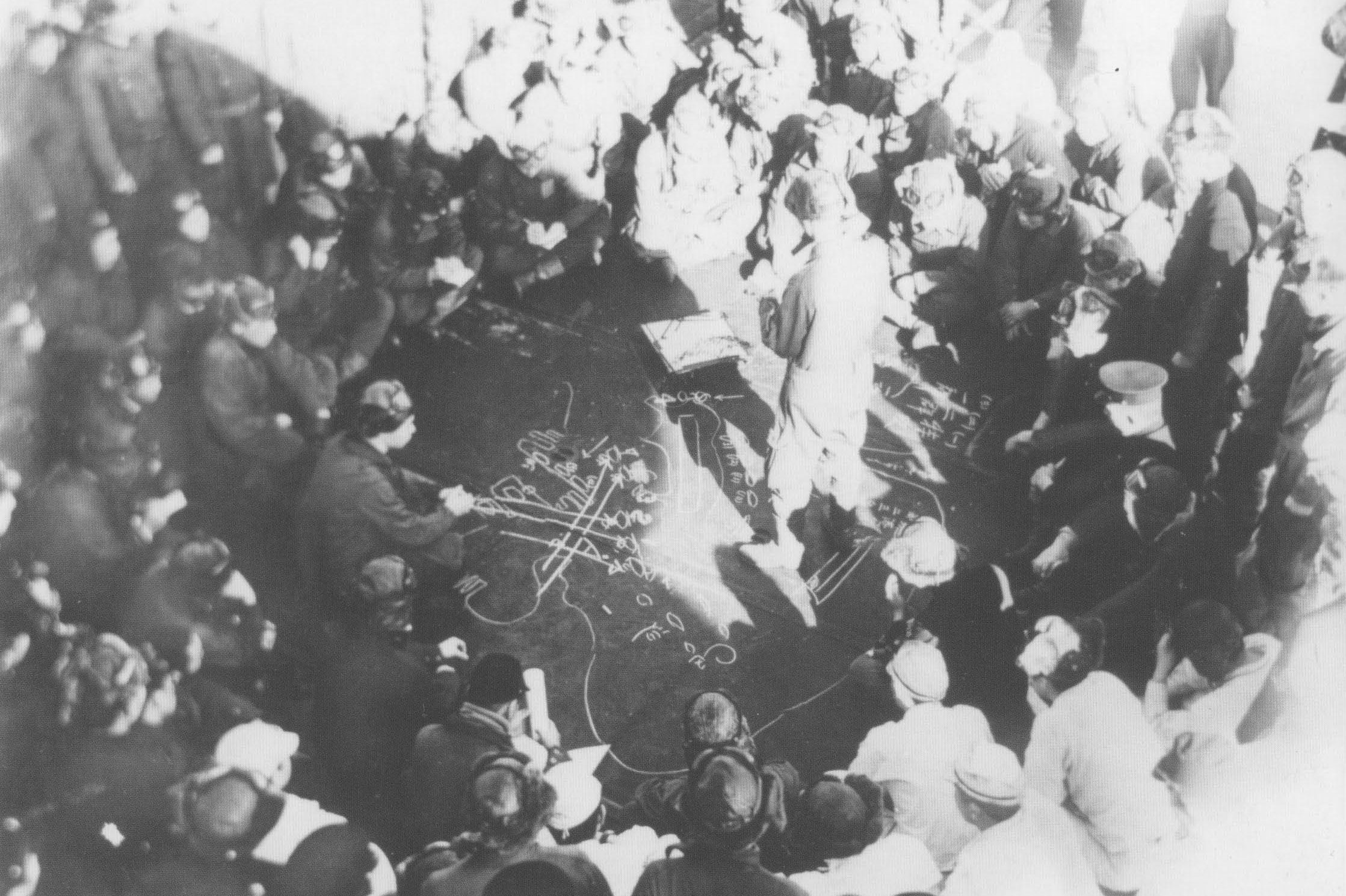 Lieutenant Ichiro Kitajima, group leader of the Imperial Japanese Navy aircraft carrier Kaga's Nakajima B5N2 Type 97 torpedo bomber group, briefs his flight crews about the Pearl Harbor raid which will take place the next day. A diagram of Pearl Harbor and the aircraft's attack plan is chalked on the deck.